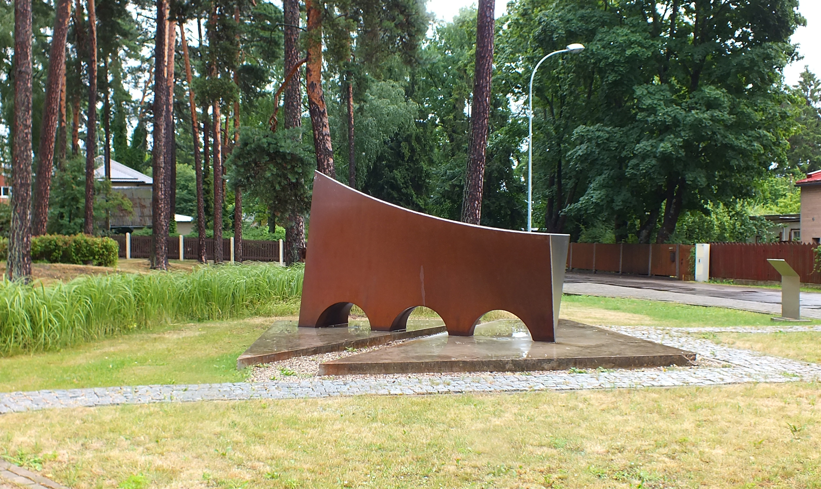 Sculpture "Tilts un Mūzība"